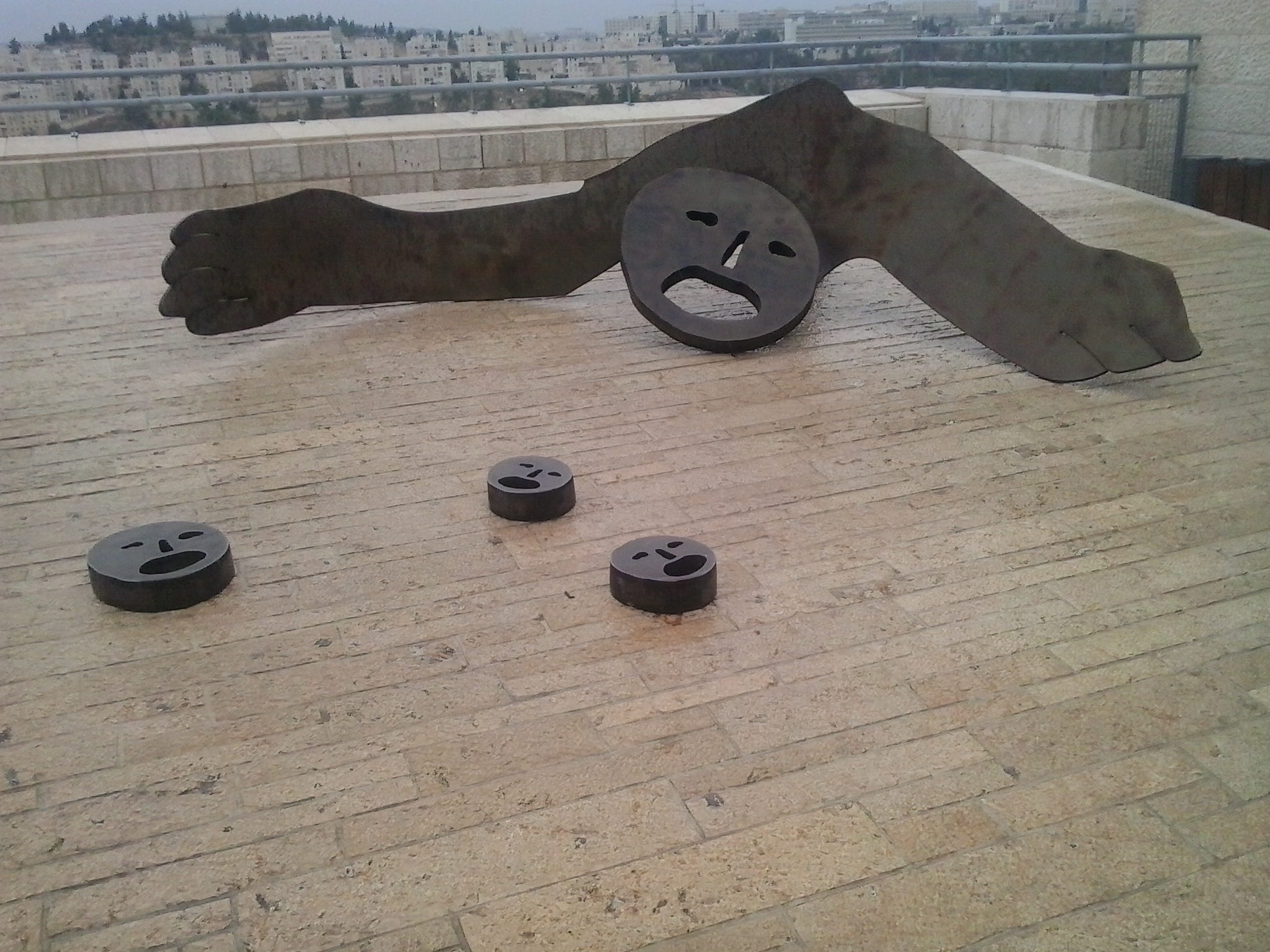 Family Square at Yad Vashem, Jerusalem, 2015